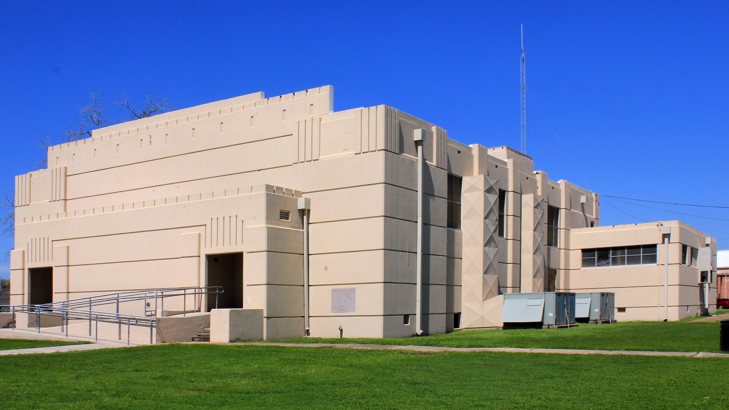 The gymnasium in Luling, Texas, United States was built by the Works Progress Administration in 1937.